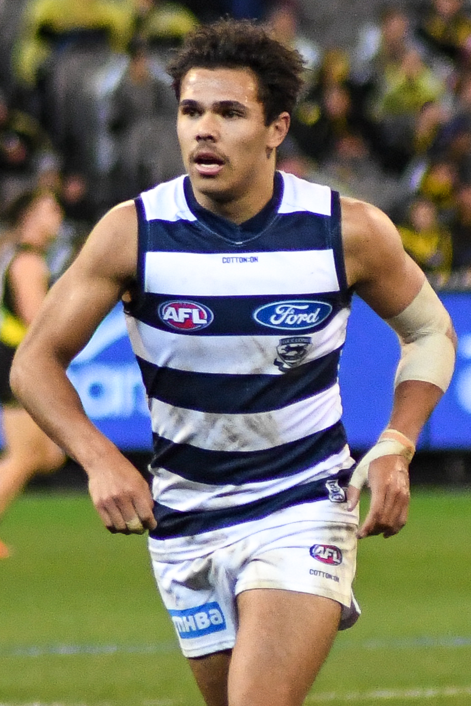 Jamaine Jones of Geelong during the 2018 AFL round 20 match between Richmond and Geelong at the Melbourne Cricket Ground on Friday, 3 August 2018 in Melbourne, Victoria.